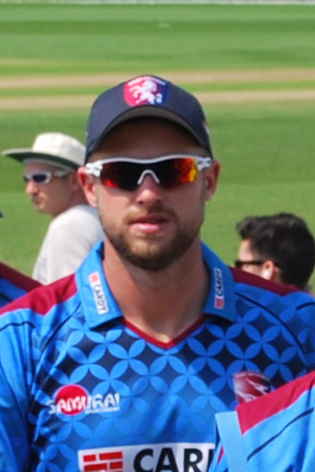 Alex Blake at Kent County Cricket Ground, Beckenham - June 2016